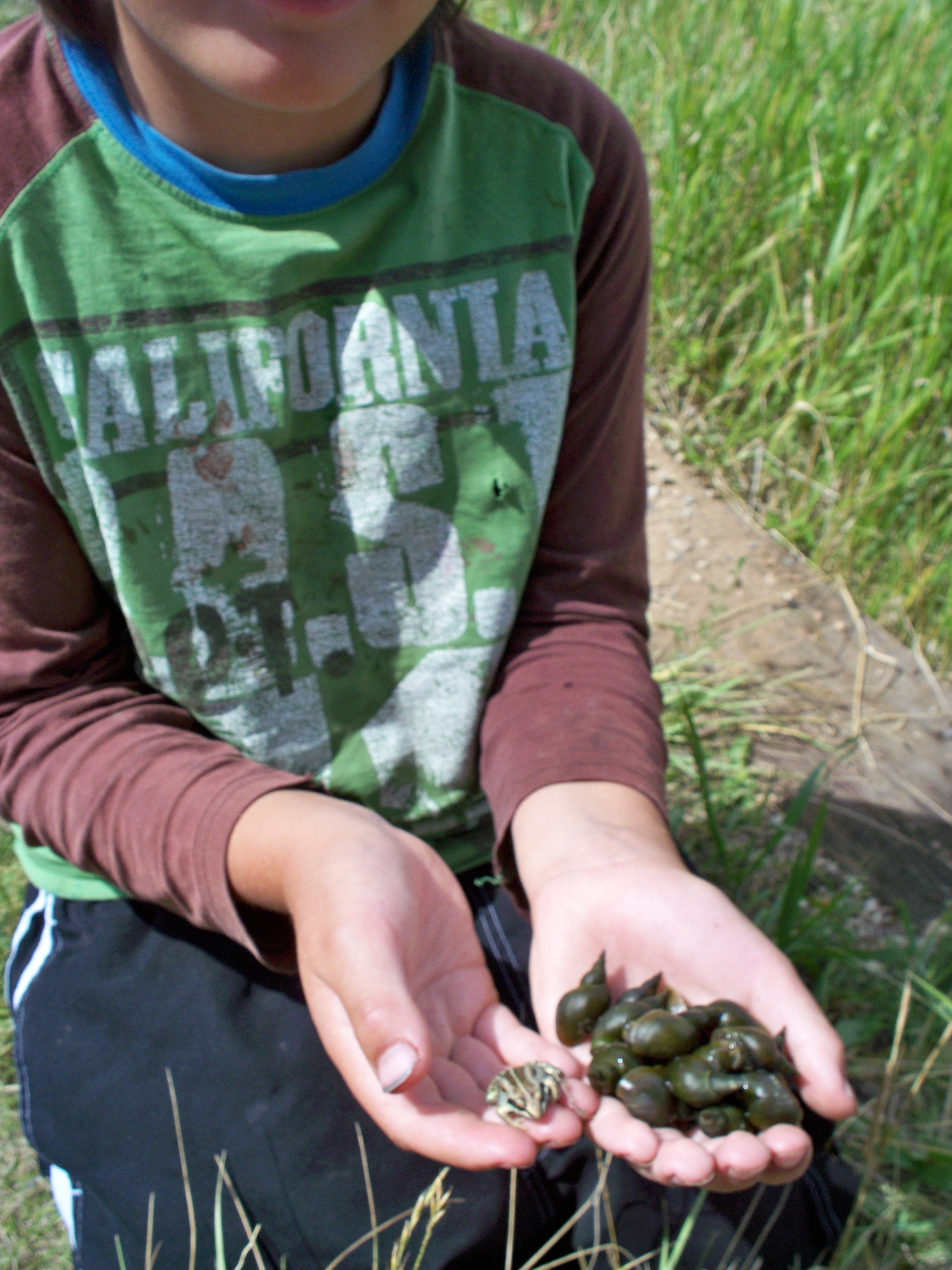 Snails at Biggar Trout Pond.